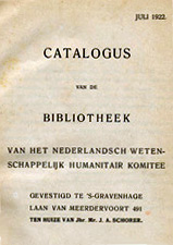 Catalogue of the library of the first dutch gay right organization, the NWHK, also known as the Schorer library. 1922.